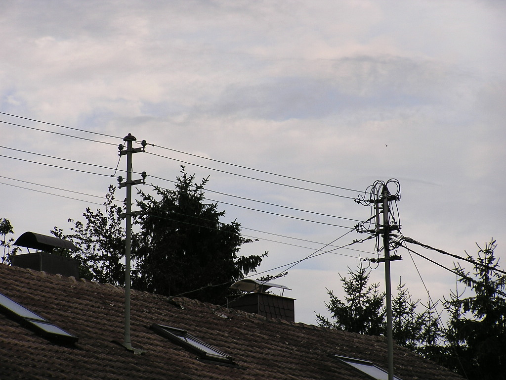 Roof stand in Frankfurt am Main, Germany